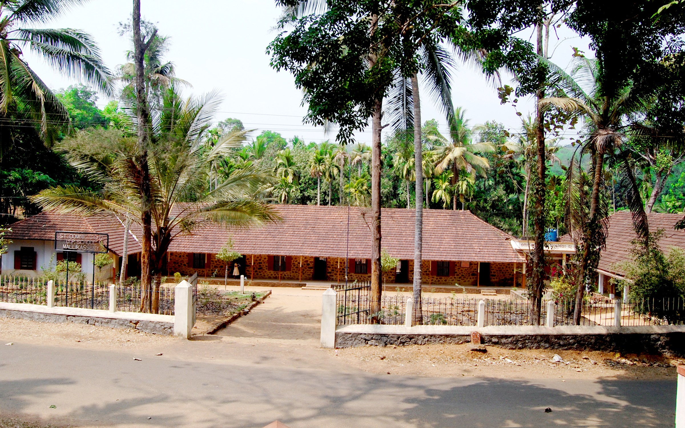 St.Dominic Savio Upper Primary School/ St.Thomas Sunday School, Mallikassery